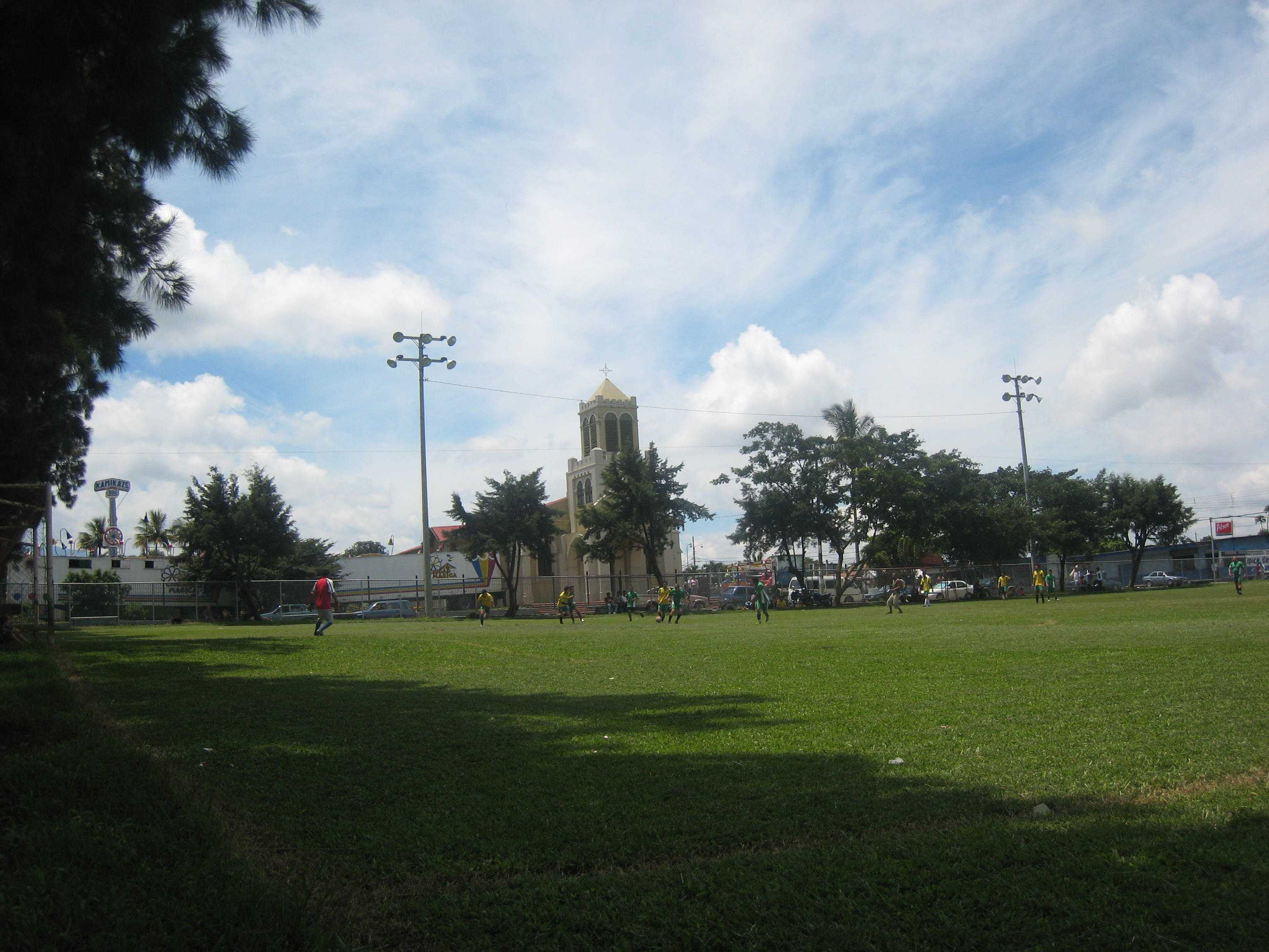 Soccer game in San Pedro de Santa Bárbara Plaza with view of church, facing north